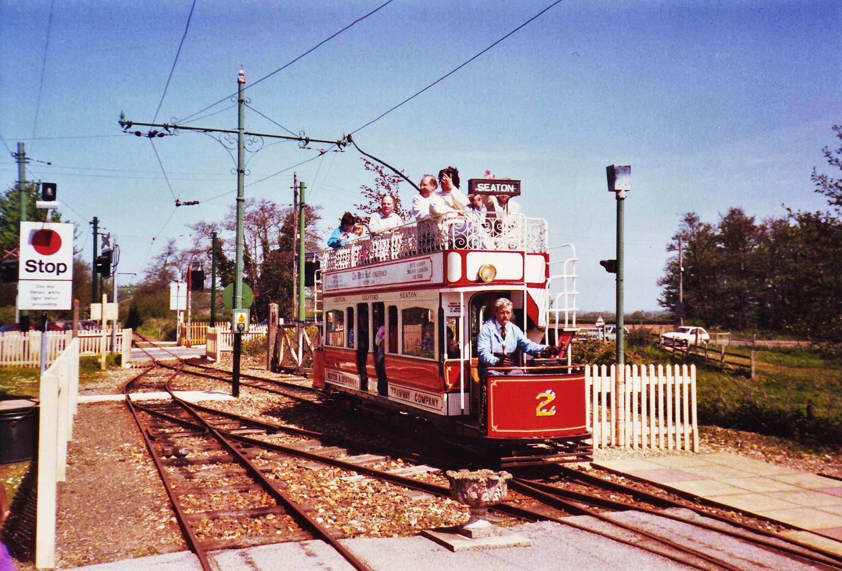 Level crossing on the A3052 at Colyford, Devon